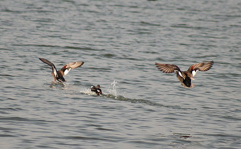 Gadwall (Anas strepera) in Kolkata, West Bengal, India.